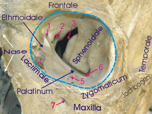 Left human orbit. 1 Foramen ethmoidale, 2 Canalis opticus, 3 Fissura orbitalis superior, 4 Fossa sacci lacrimalis, 5 Sulcus infraorbitalis, 6 Fissura orbitalis inferior, 7 Foramen infraorbitale, Nase: nose (nasal bone), Jochbogen: Zygomatic arch